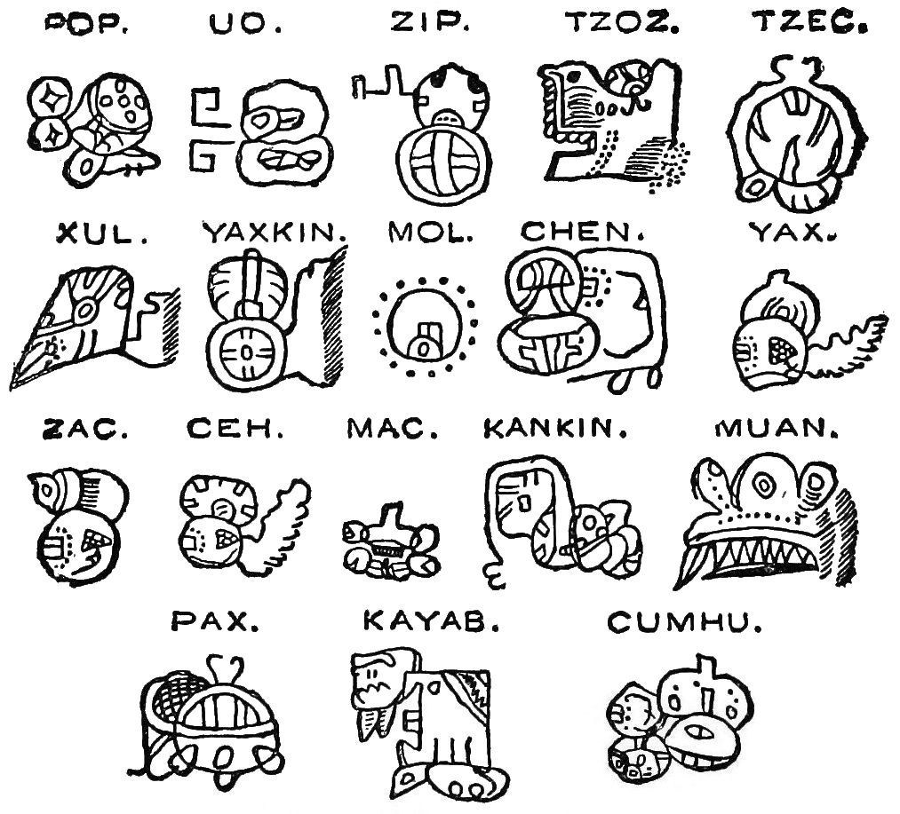 Maya month characters